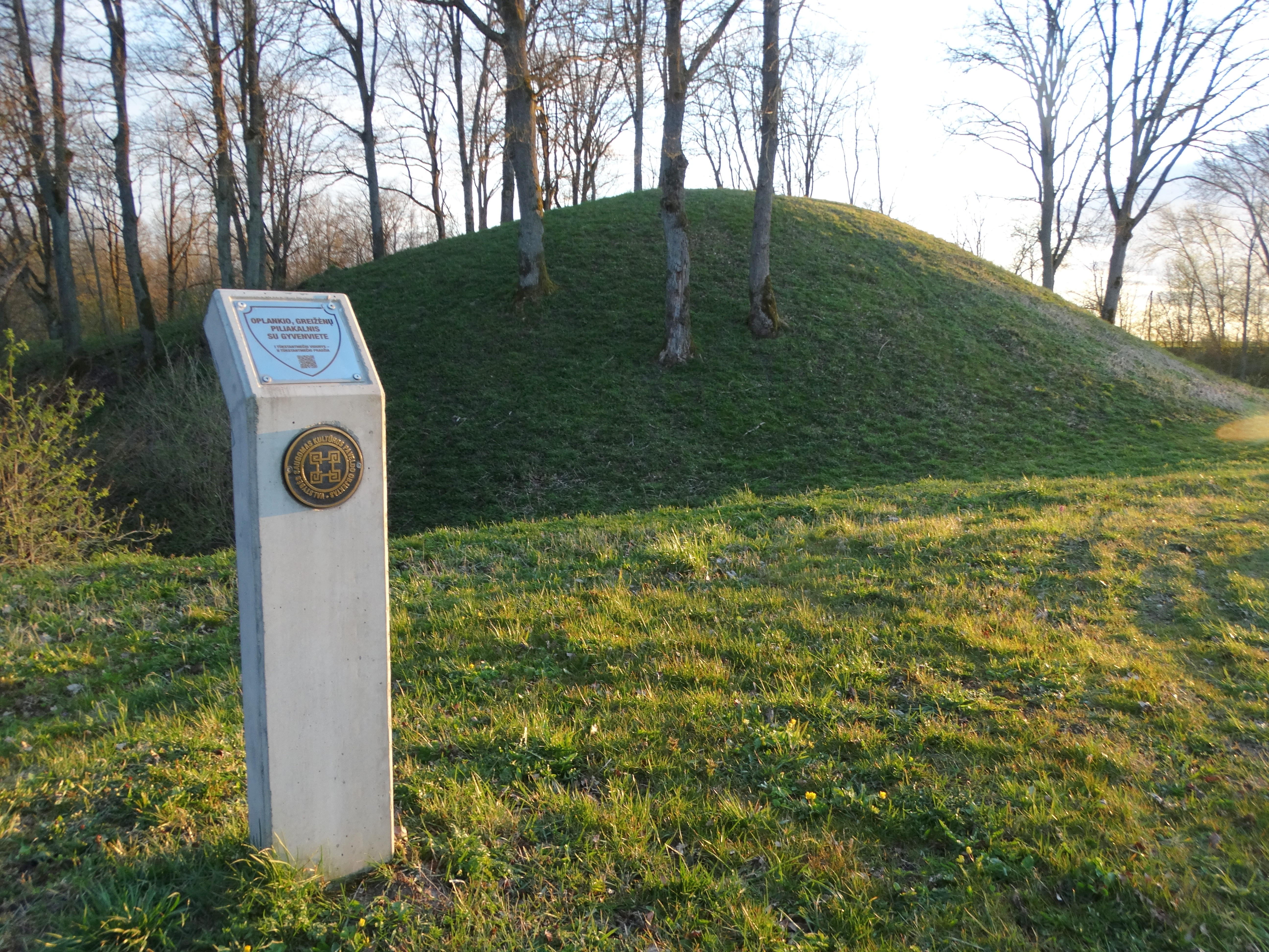 Hillfort of Greižėnai, Tauragė district, Lithuania